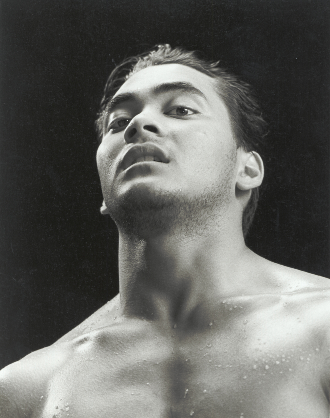 Actor Mark Dacascos in an early indie film made in San Francisco, California, 1983. Photo by Nancy Wong. Scene was deleted in final film.